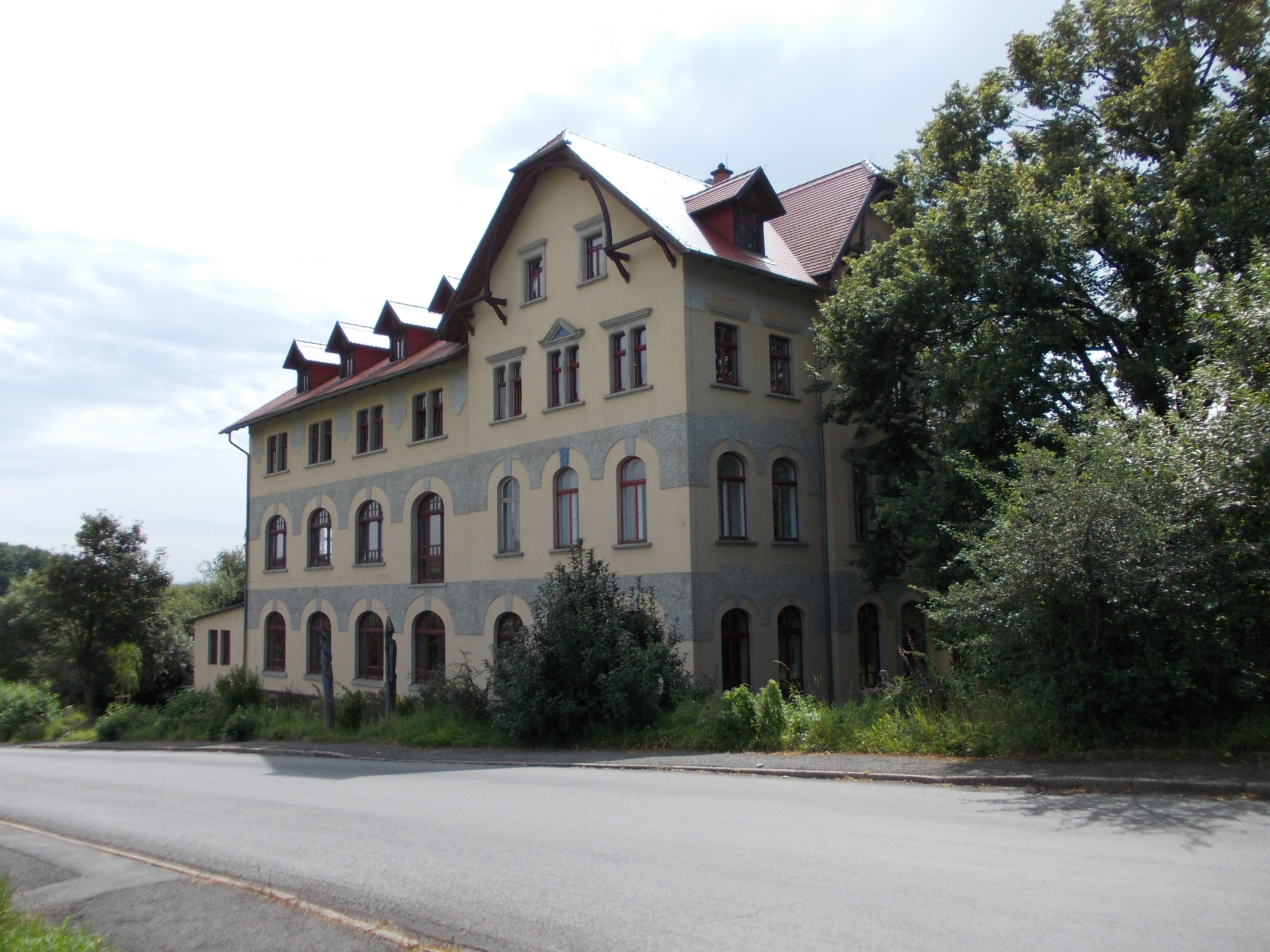 MEDA culture factory in Mittelherwigsdorf (Görlitz district, Saxony)